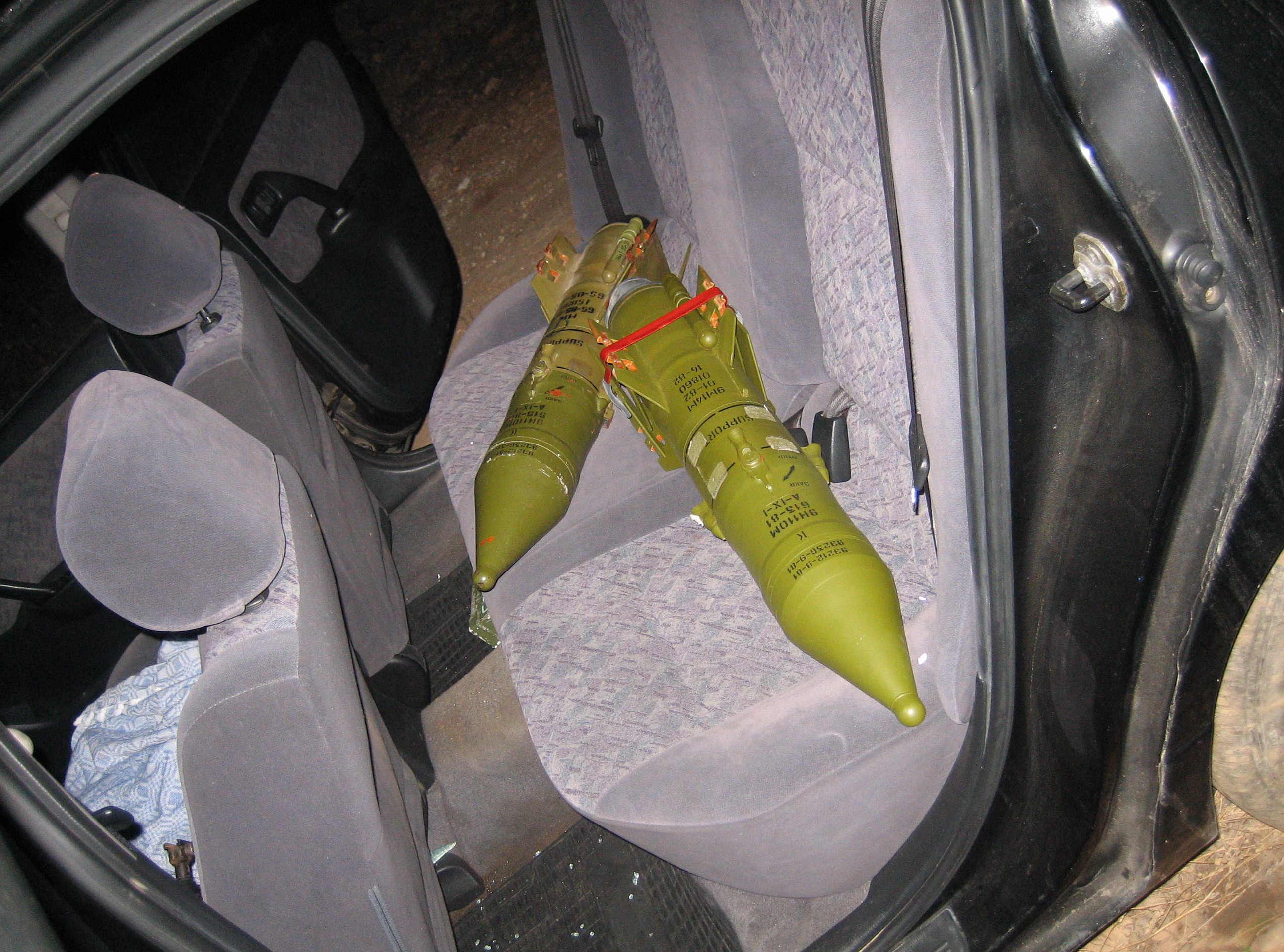 August 8, 2006 A car filled with Sager missiles, captured by IDF forces in southern Lebanon.